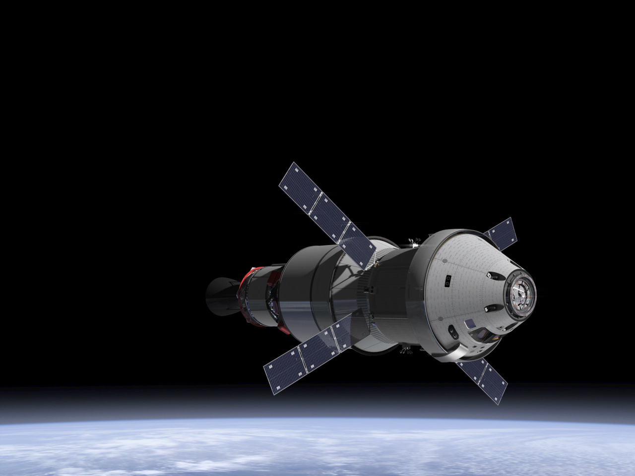 This artist's concept of the Orion Service Module was introduced today (16 January 2013). When the Orion spacecraft blasts off atop NASA’s Space Launch System rocket in 2017, attached will be the ESA-provided service module – the powerhouse that fuels and propels the Orion spacecraft. Orion will be the most advanced spacecraft ever designed and carry astronauts farther into space than ever before. It will sustain astronauts during space travel and provide safe re-entry from deep space and emergency abort capability. Orion will be launched by NASA's Space Launch System (SLS), a heavy-lift rocket that will provide an entirely new capability for human exploration beyond low Earth orbit. Designed to be flexible for launching spacecraft for crew and cargo missions, SLS will enable new missions of exploration and expand human presence across the solar system. The service module of the Orion spacecraft will provide support to the crew module from launch through separation prior to atmospheric re-entry.